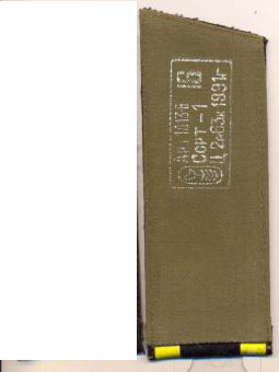 Russian rank insignia (са. 1970), here "Kursant" (OF-D) – shoulder strap (appliquéd, reverse) Army, (ground forces, SAM missile troops) everyday uniform.